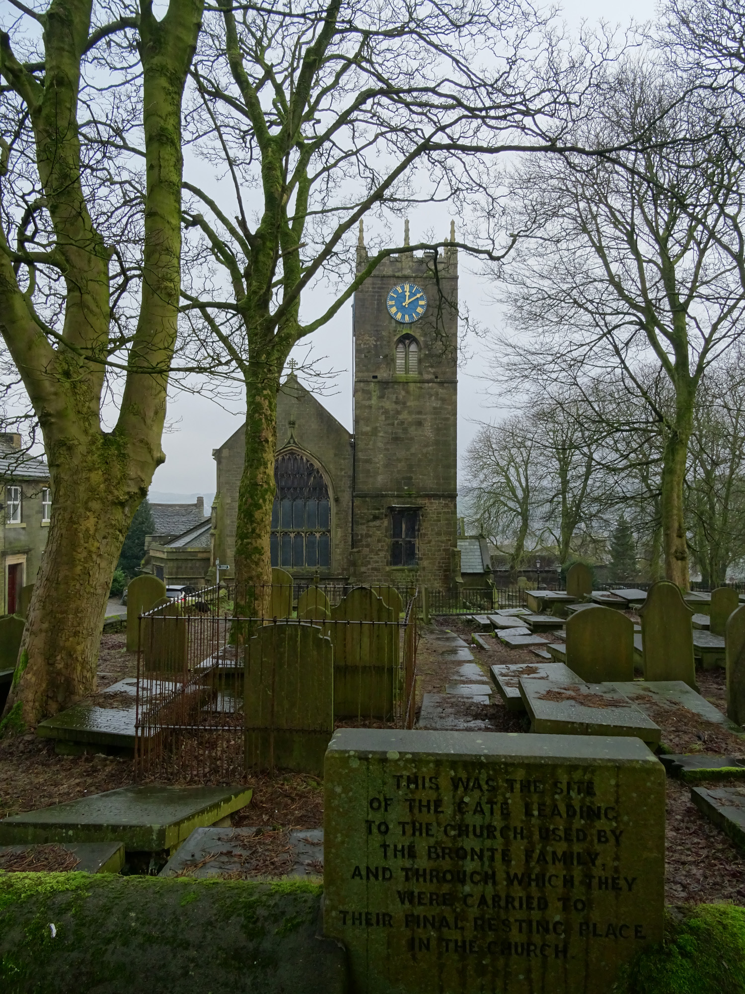 Church St, Haworth BD22 8DR